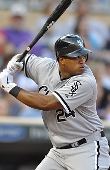 Dayán Viciedo